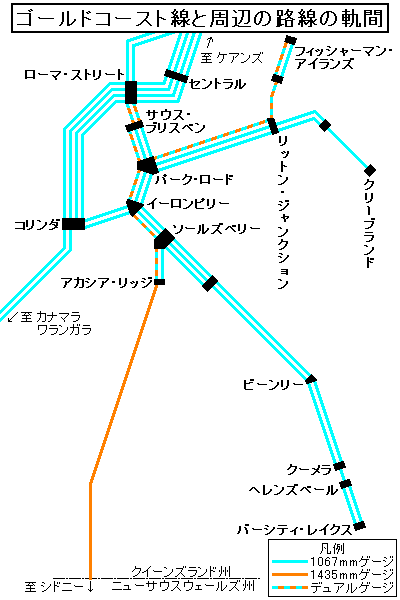 A railway gauge diagram of QR Gold Coast Line and the surrounding lines. The blue lines show 1067mm gauge tracks. The orange line shows 1435mm gauge track. The striped lines show the dual gauge tracks.